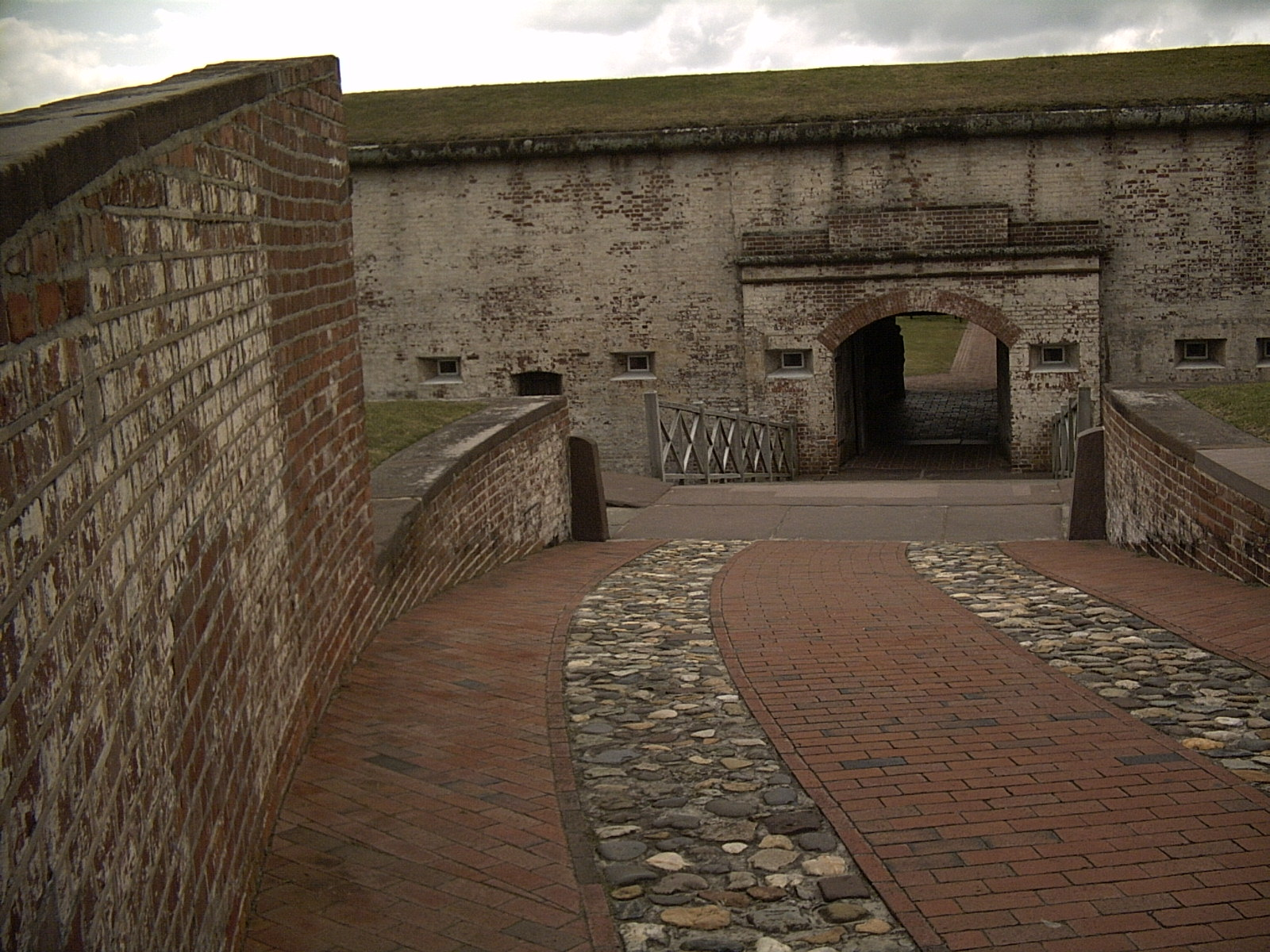 This in my own work, taken in 2004 of the main entry into the Fort.